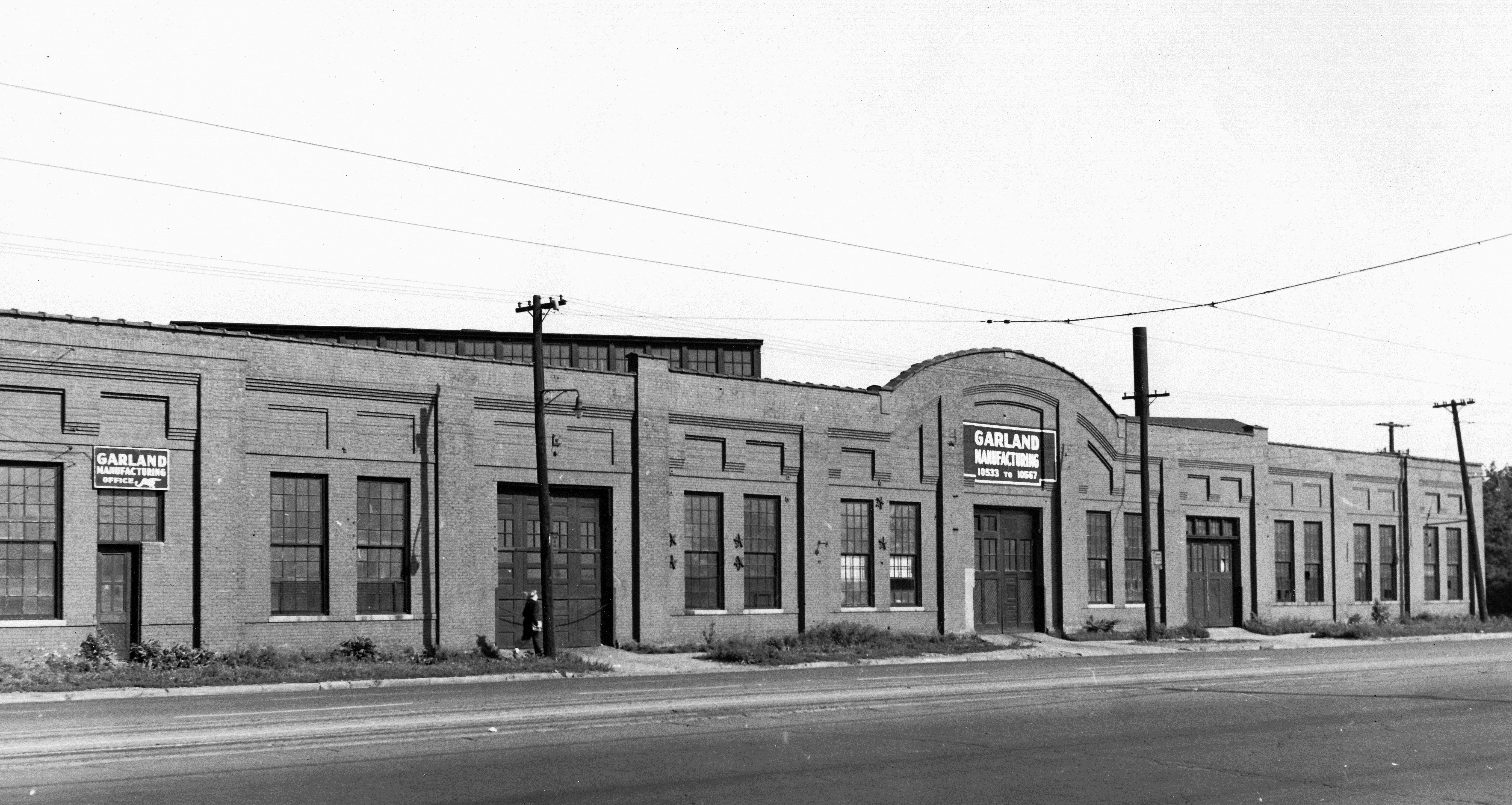 Historic picture of Garland Manufacturing Company with 125,000 square feet of manufacturing space at 10533 Gratiot Avenue in Detroit, Michigan (c. 1945)